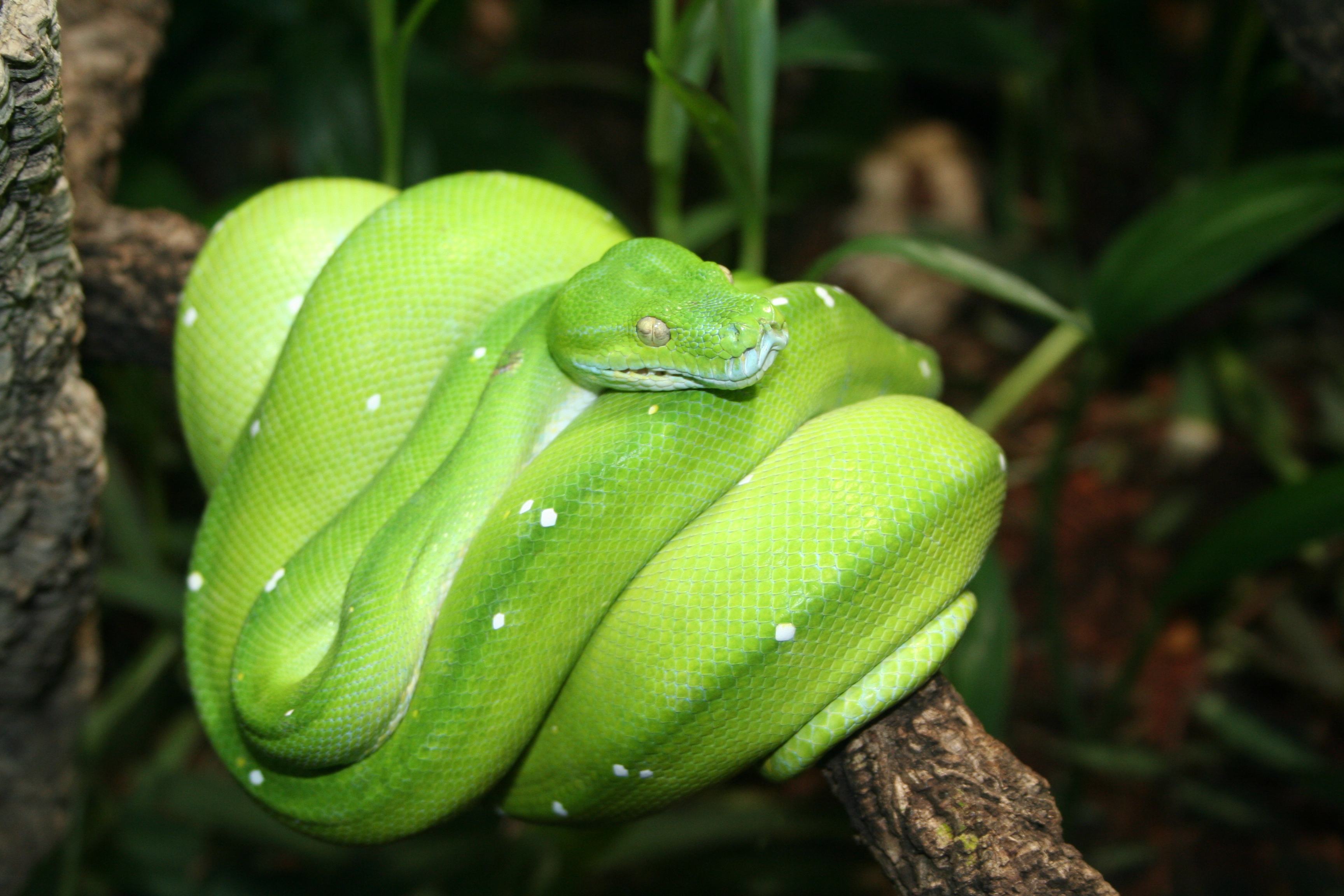 A green Python (Morelia viridis) in the snake exhibit at the Berlin Zoo.